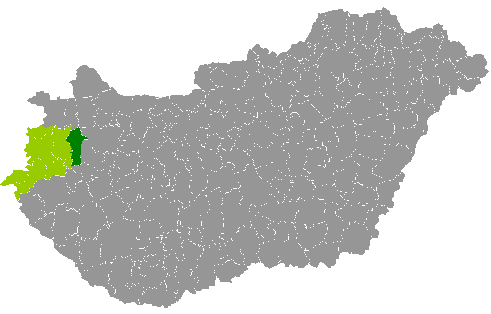 Location of Celldömölk District, Vas, Hungary